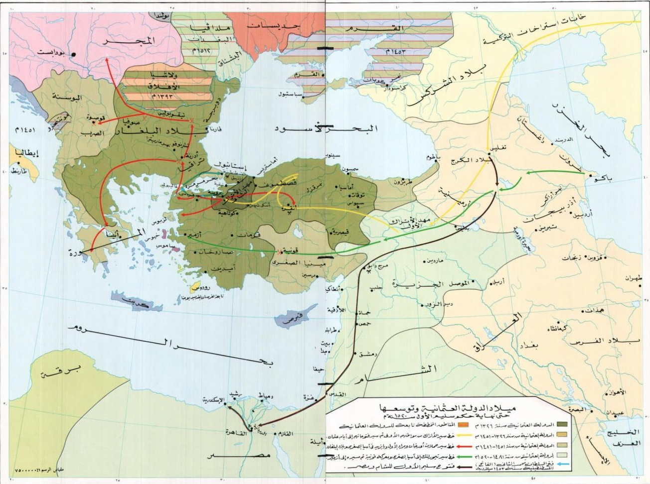 Map showing the birth and expansion of the Ottoman Empire untill the end Selim I. regin.